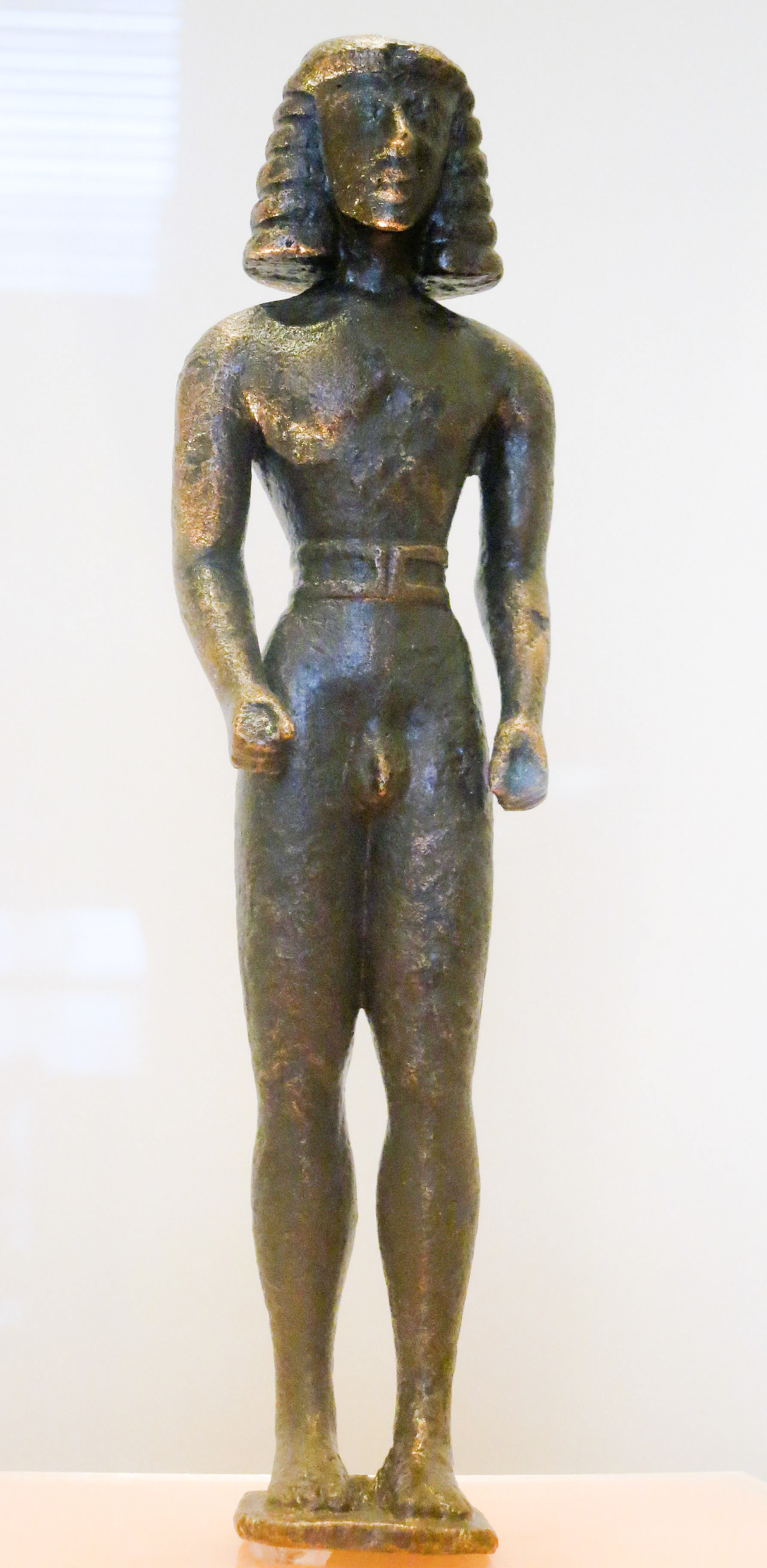 Bronze statuette of a kouros. H. 19.6 cm. Generally considered from Crete, circa 625-600 BC. Front view. Delphi Archaeological Museum, March 2527